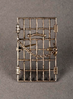 Nina E. Allender, Amelia Himes Walker's Jailed for Freedom Pin, 1917